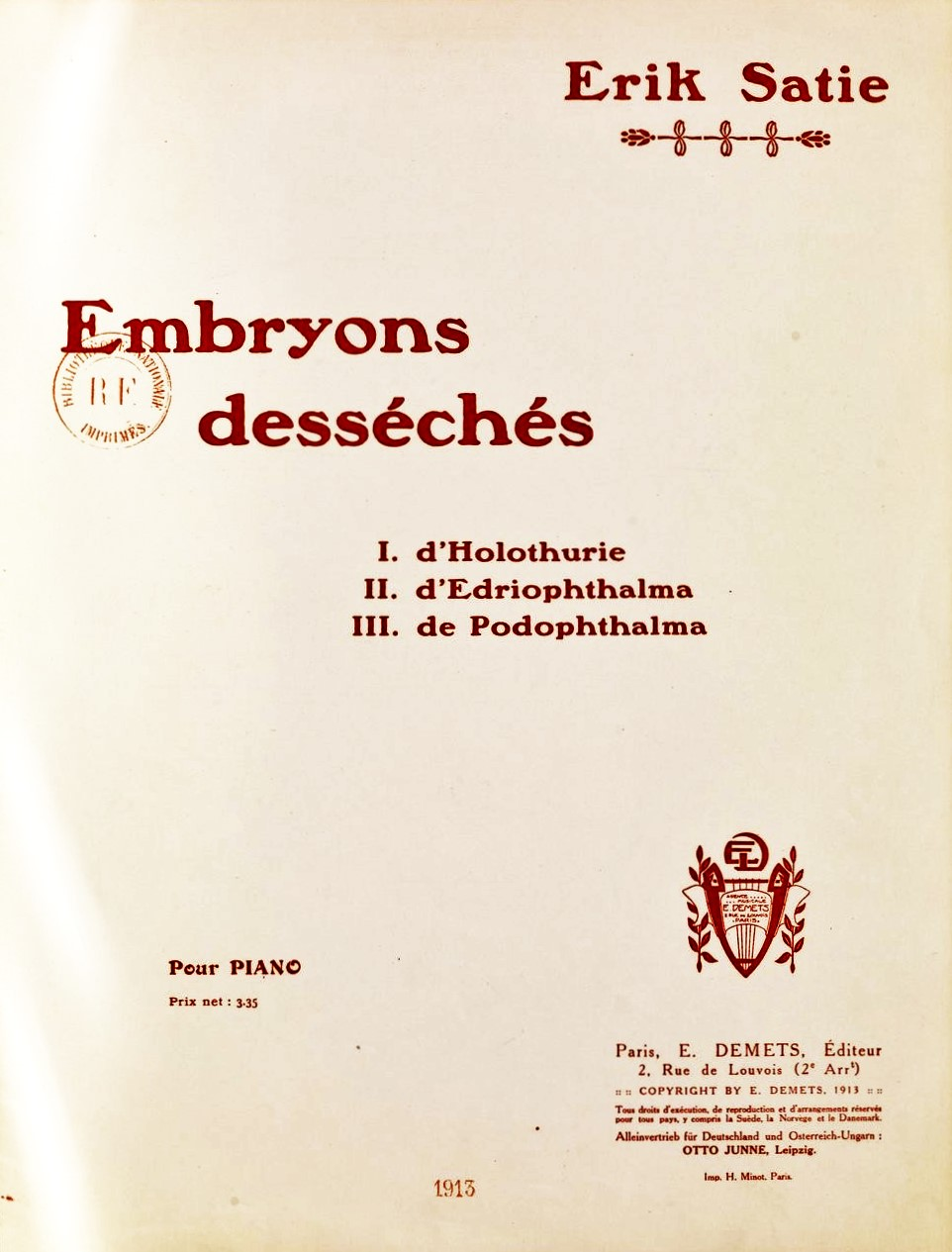 Cover of original edition of Erik Satie's composition "Dessicated Embryos".